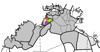 The Day languages (color), among the other non-Pama-Nyungan languages (grey) North Daly West Daly East Daly South Daly